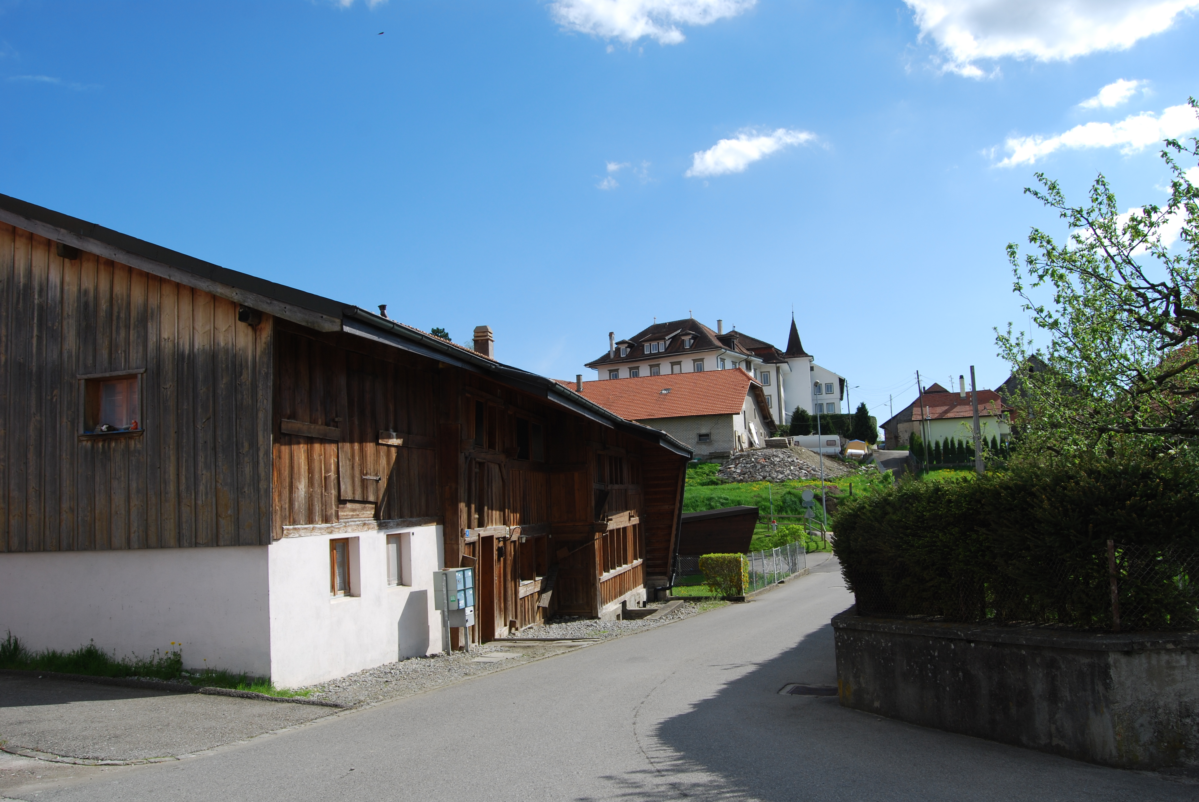 Orsonnens, municipality Villorsonnens, canton of Fribourg, Switzerland